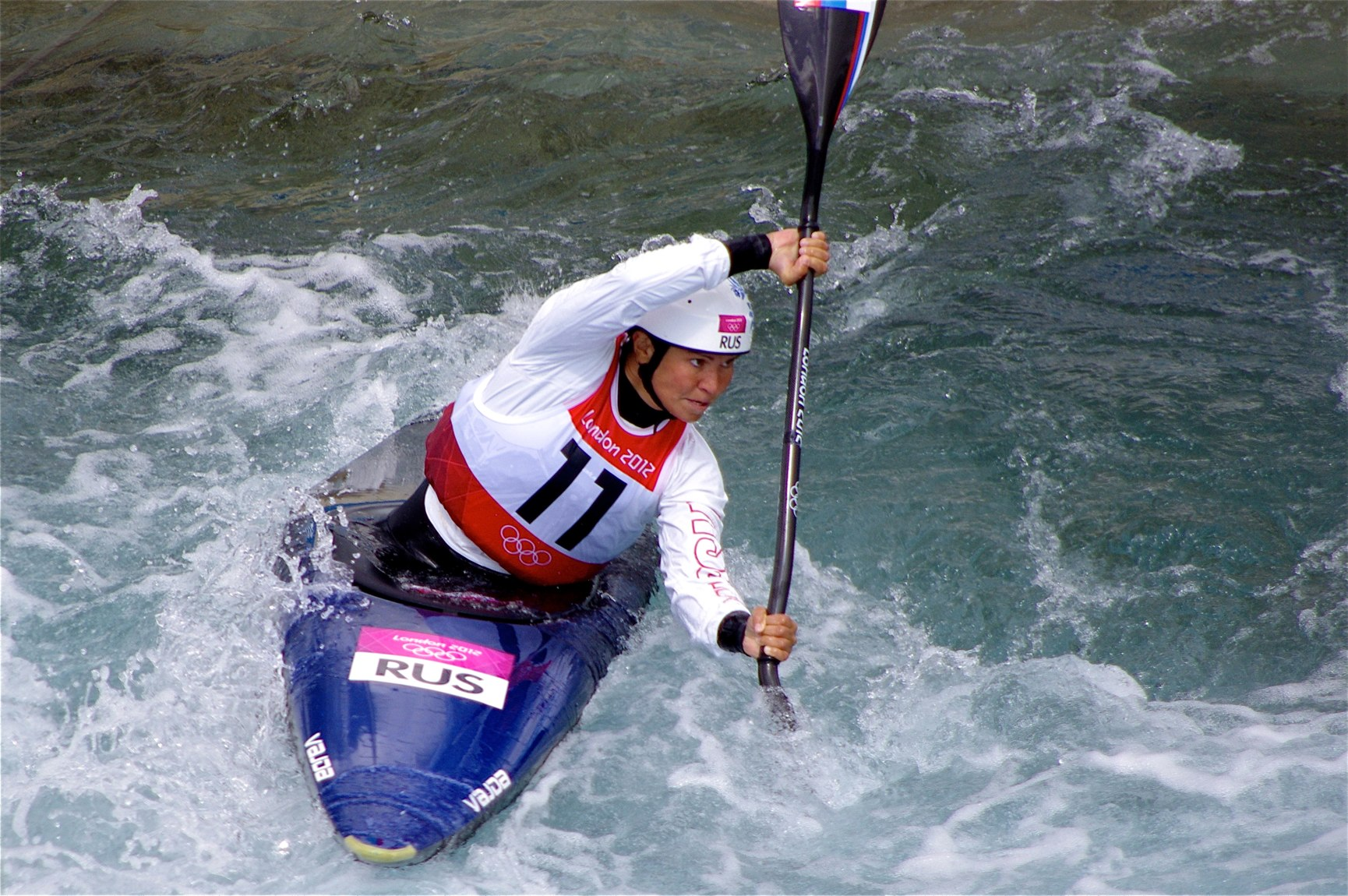 Canoeing at the 2012 Summer Olympics – Women's slalom K-1 Marta Kharitonova (RUS)